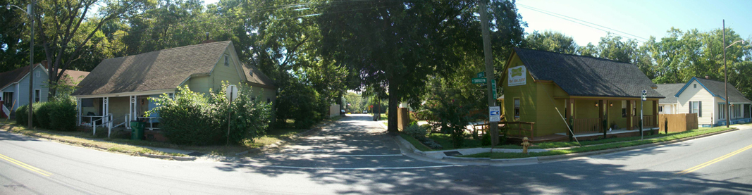 North Charlotte's Neighborhood in Highland Mill Village Houses